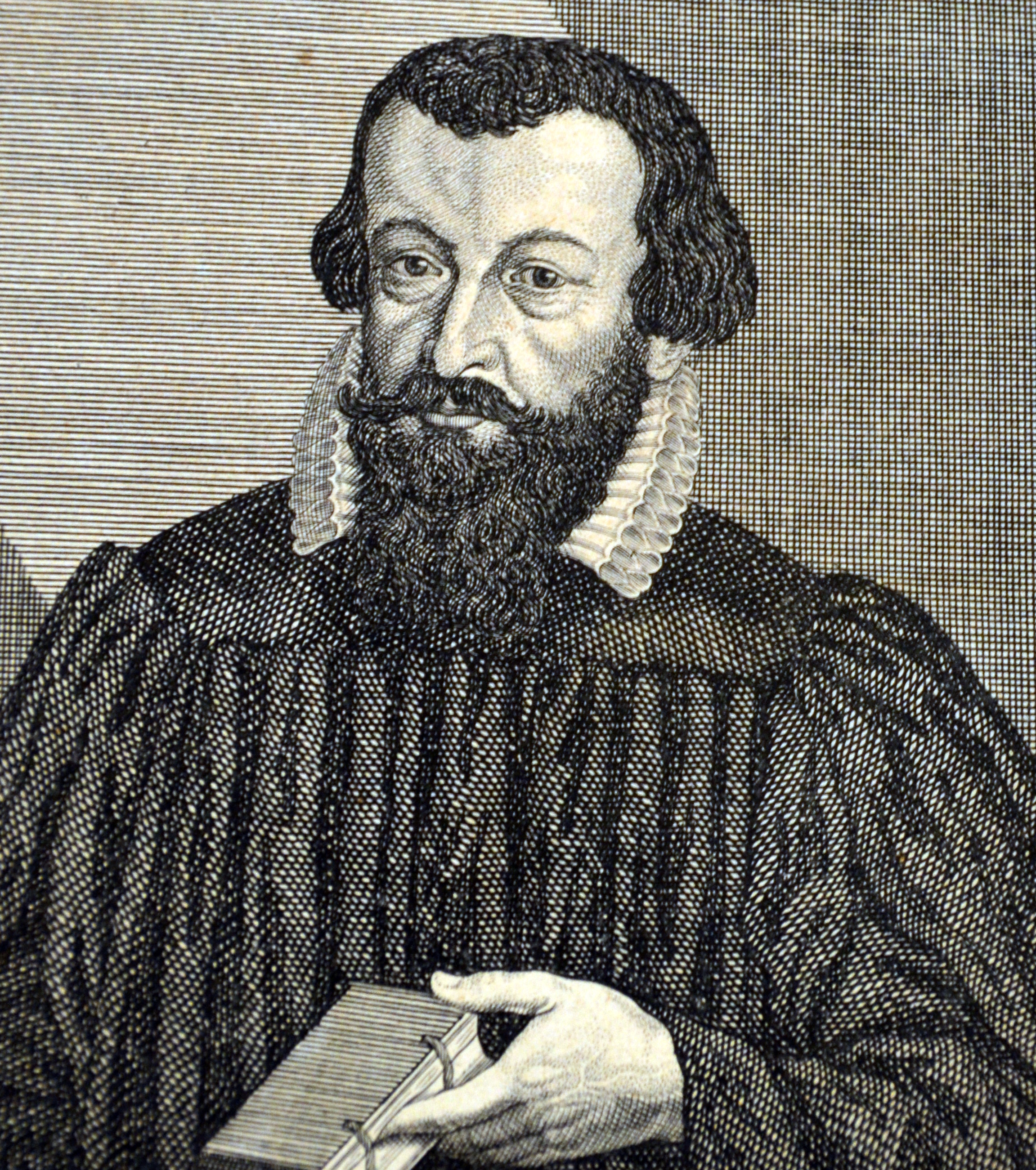 Franciscus Gundling (c. 1530-1567), german protestant